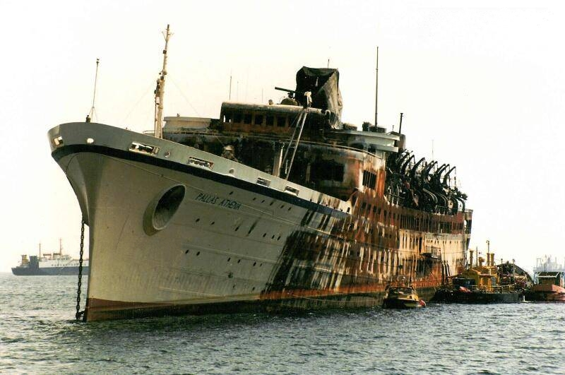 The cruise ship Pallas Athena laid up in Perama Bay in 1994 after its fire.